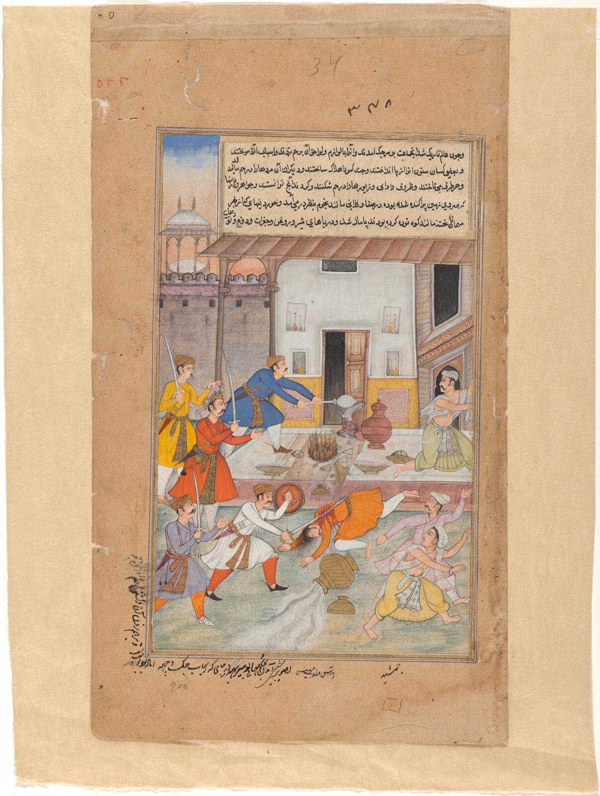 Object ID: 2007.12 Designation: The Destruction of Daksha's sacrifice, from an illustrated manuscript of the Razmnama Artist: Jamshed Date: 1598-1600 Medium: Opaque watercolors and gold on paper Place of Origin: Pakistan Lahore or Northen India Style or Ware: Mughal Credit Line: Acquisition made possible by the George Hopper Fitch Bequest Label: This early Mughal period painting comes from an illustrated imperial manuscript of the Razmnama, a Persian translation of the great Hindu epic the Mahabharata. The Muslim Mughal emperor Akbar (reigned 1556– 1605), in whose reign this painting was completed, commissioned Persian translations of the Mahabharata and the other great Hindu epic, the Ramayana, to demonstrate his interest in learning more about Hindu religion and culture. Three major illustrated copies of the Razmnama are known; these are dated to 1598– 1600, 1605, and 1616– 1617. This painting comes from the earliest of these manuscripts. One of the most remarkable features of this illustrated Razmnama is that it depicts many stories ancillary to the central narrative. The story told here is as follows: Daksha, father-in-law to the powerful Hindu deity Shiva, held a sacrificial ceremony to which he invited everyone but Shiva. At the ceremony, Daksha continued to insult Shiva. Enraged, Shiva’ s wrath became personified as Virabhadra, and he and his henchmen attacked the ceremony, breaking vessels, killing guests and decapitating Daksha. On display: no Collection: PAINTING Dimensions: H. 11 7/8 in x W. 7 in, H. 30.2 cm x W. 17.8 cm Department: SA